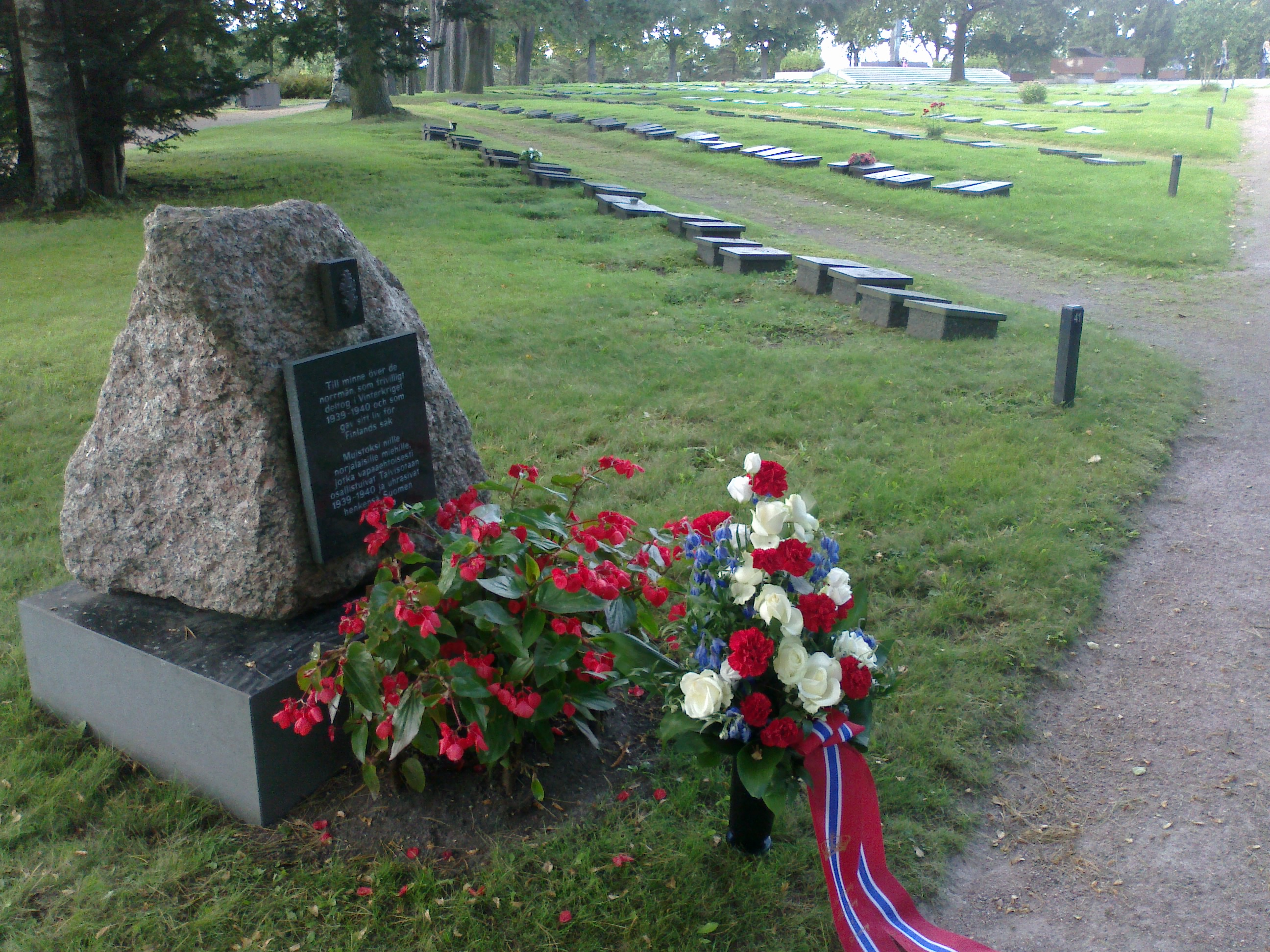 Memorial monument in honour of Norwegian volunteers who lost their lives in the Winter War between the Soviet Union and Finland in 1939-1940. (fi: Norjalaisten talvisodan vapaaehtoisten muistomerkki, Hietaniemen hautausmaa Helsinki. sv: Till minne över de norrmän som frivilligt deltog i Vinterkriget 1939-40 och som gav sitt liv för Finlands sak, Sandudds begravningsplats Helsingfors.)